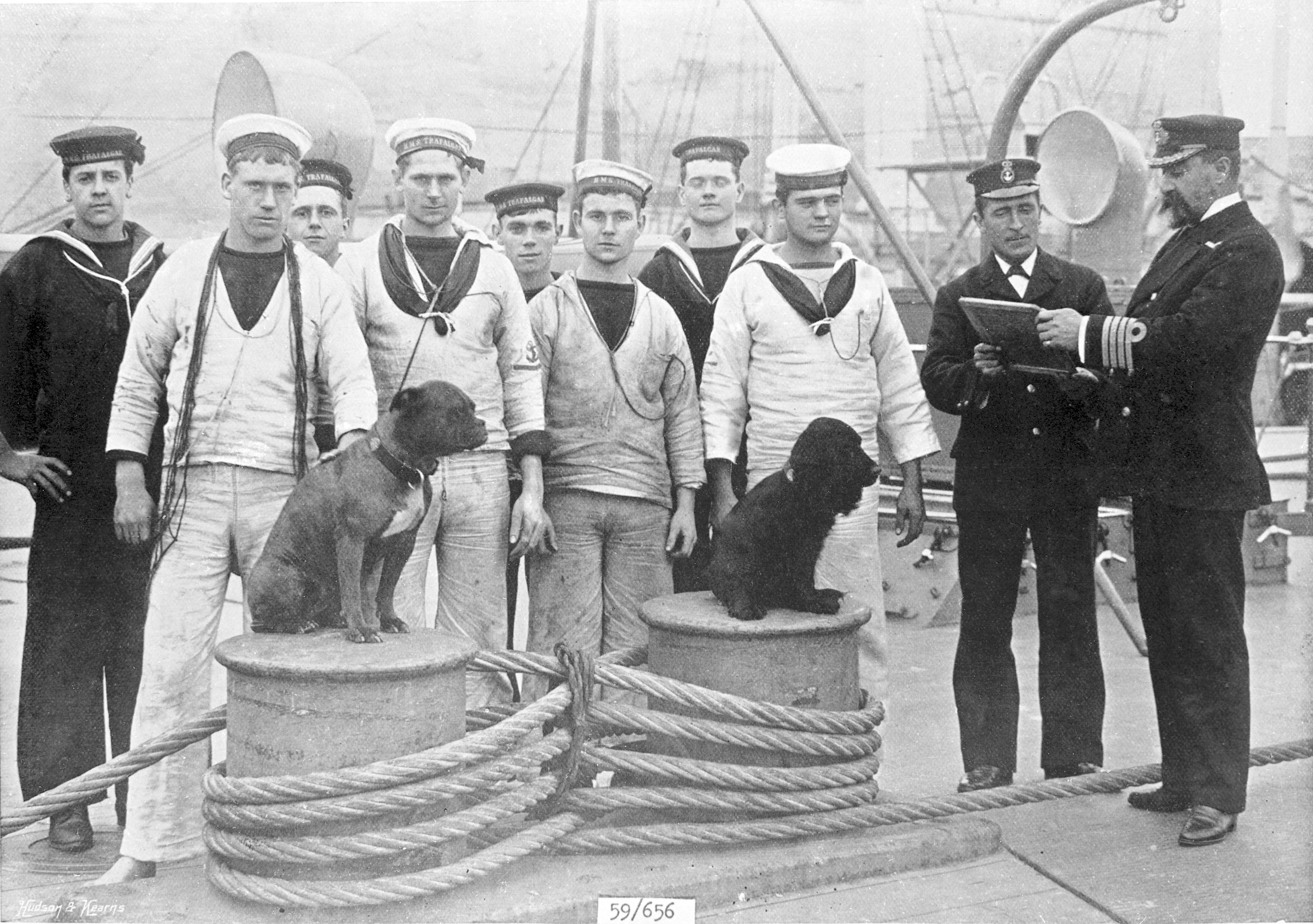 Crewmen and officers with dogs, on the quarterdeck of British battleship HMS Trafalgar, at Malta.